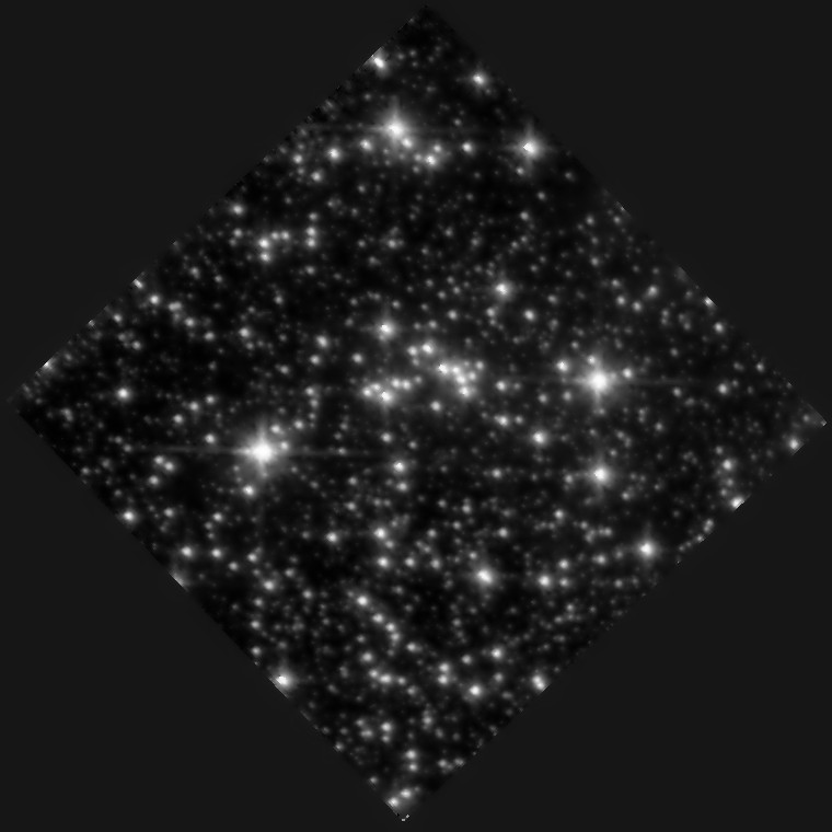 Infrared H band image of the cluster 1806-20 in Cygnus taken with the HST NICMOS camera 3. The cluster includes LBV 1806-20, SGR 1806-20, at least four Wolf-Rayet stars, and several OB supergiants.